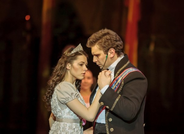 Olga Savchenko and Anton Kopchinsky in the rock opera "Juno and Avos"